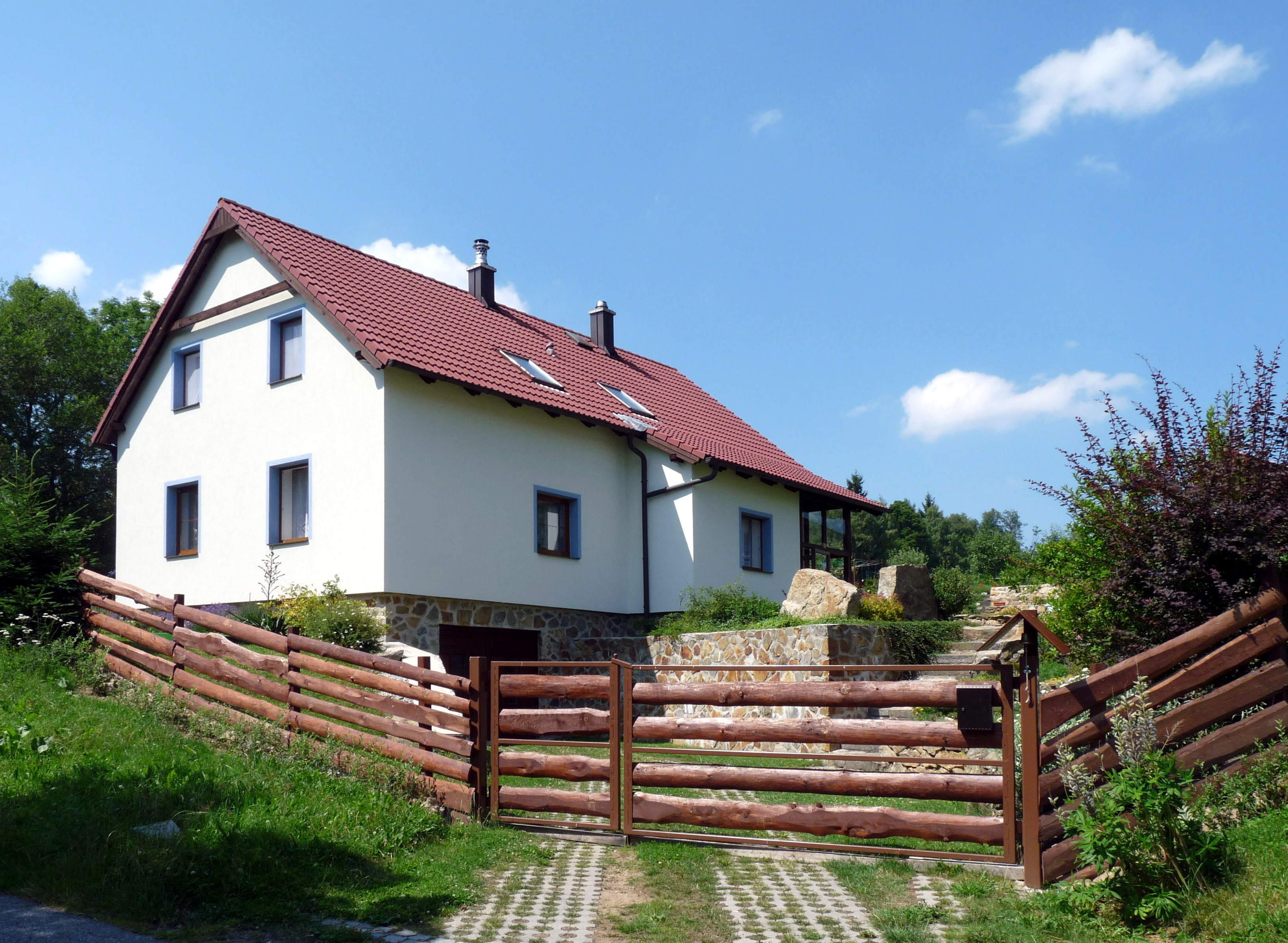 House No 8 in the vilage of Perlovice, Prachatice District, South Bohemian Region, Czech Republic.